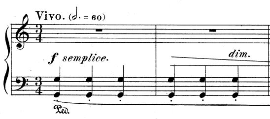 Chopin's Mazurka Op. 6 No. 5